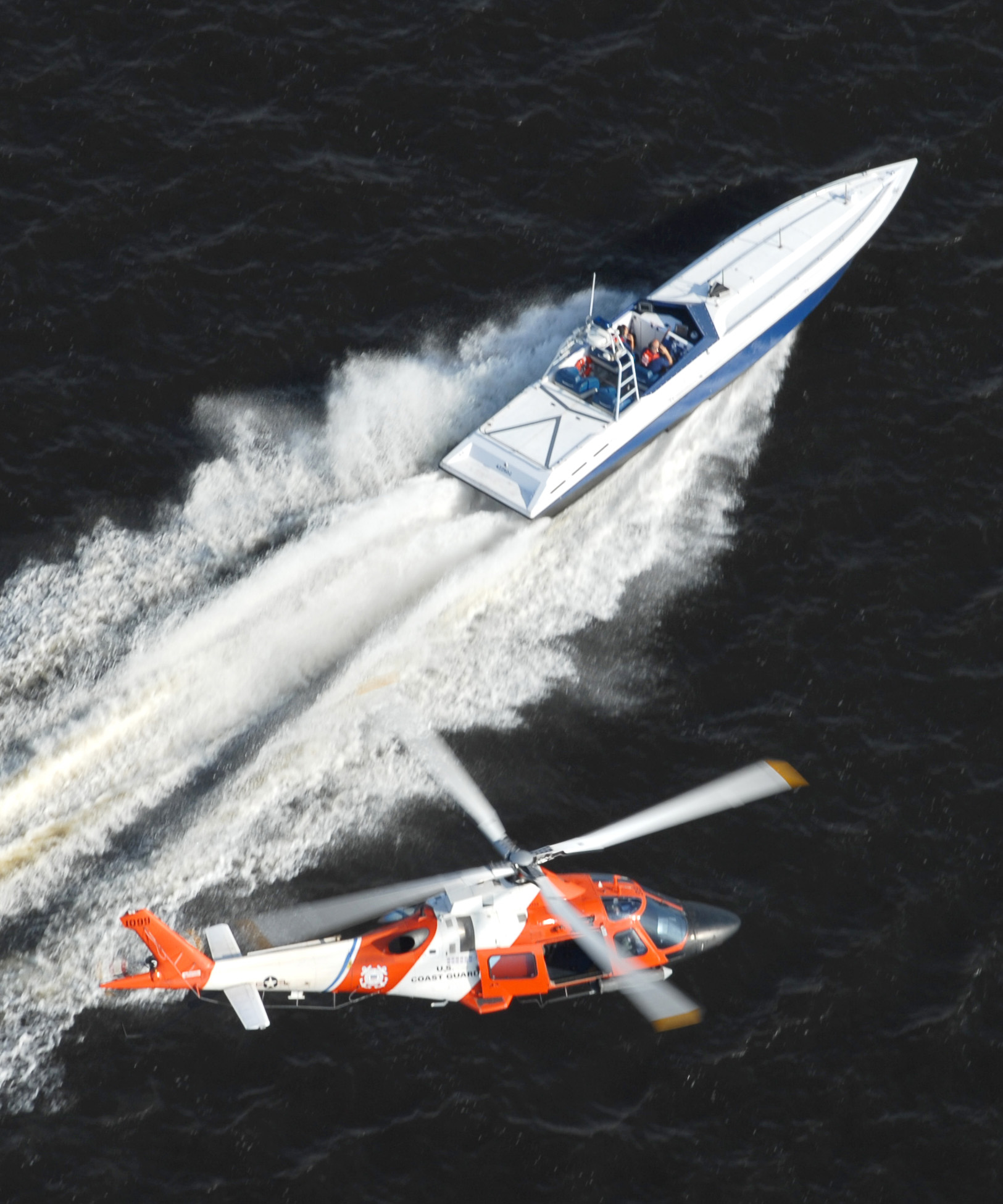 Jacksonville, Florida. A Coast Guard helicopter from Helicopter Interdiction Tactical Squadron in Jacksonville maneuvers over a Coast Guard tactical training boat. After the pilots get the helicopter into position, a gunner aboard the helicopter will simulate shooting out the engines of the boat. The tactical training boat is designed to mirror a high-speed drug smuggling boat used in the Eastern Pacific Ocean and Caribbean Sea known as a go-fast. Aircrews from HITRON deploy aboard Coast Guard cutters to known drug transit zones through out the Pacific and the Caribbean stopping smugglers. The armed helicopter interdiction unit has stopped 114 go-fasts since 1998 preventing more than $8 billion worth of illegal narcotics from hitting U.S.streets.